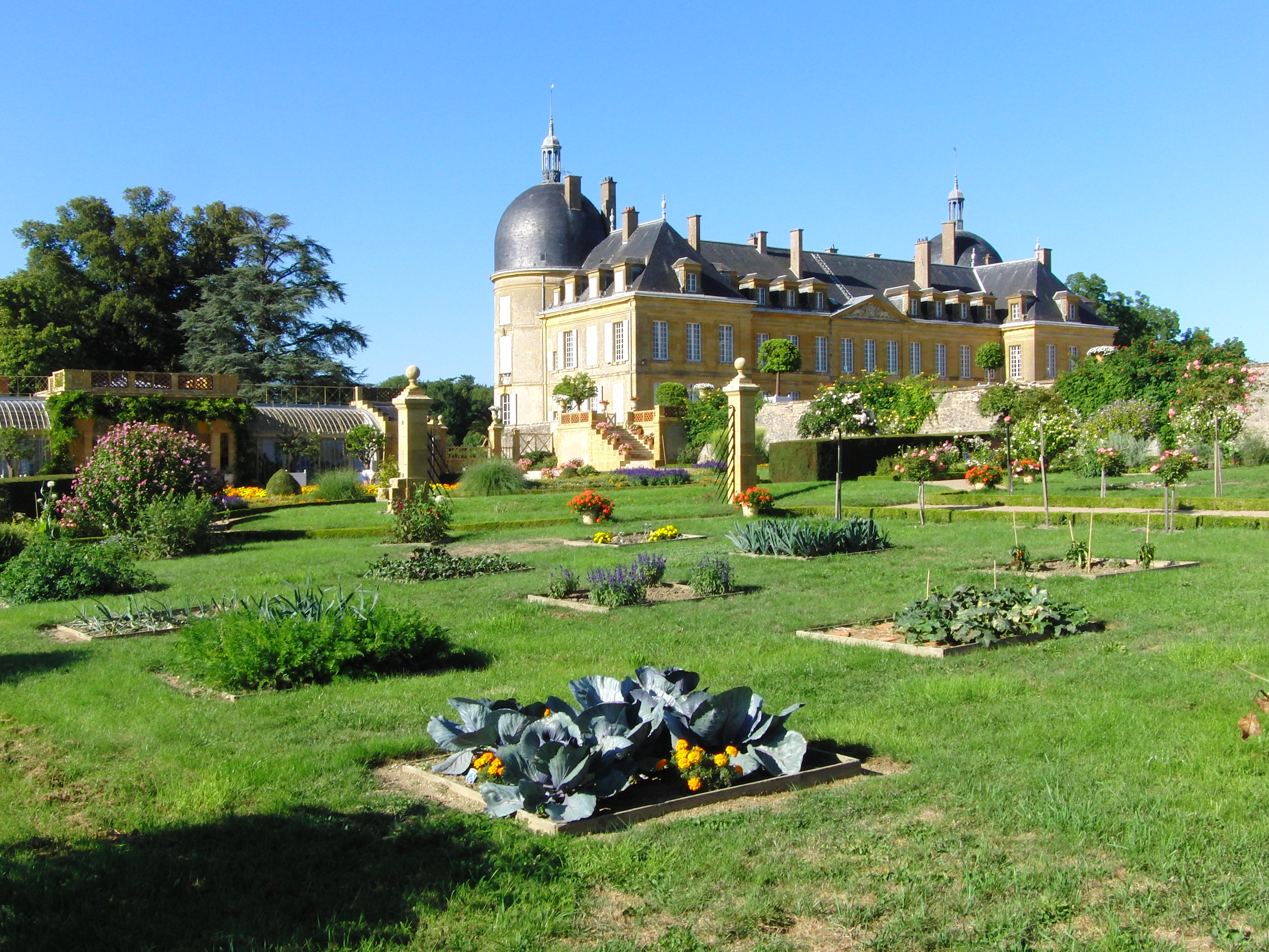 Castle of Digoine, floral & kitchen Garden, Palinges, Saône-et-Loire, FranceUnknown